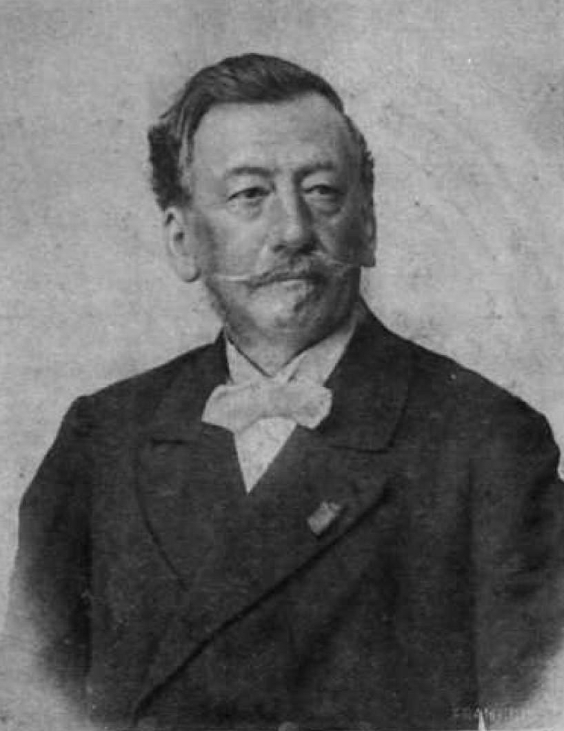 Viktor Myskovszky